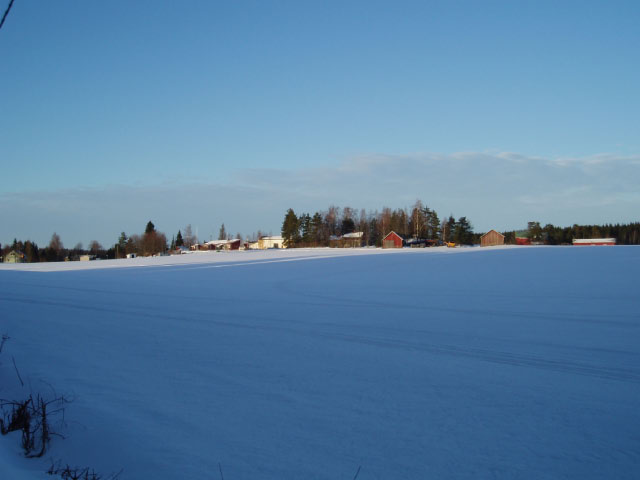 View over Luhtikylä village, Orimattila, Finland